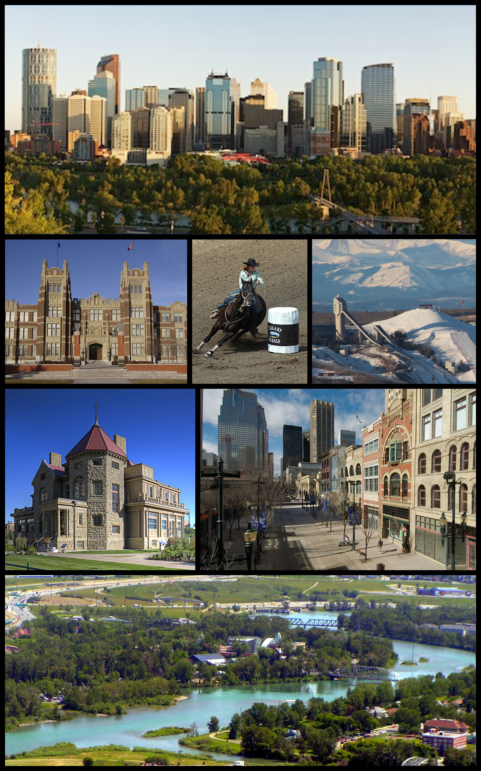 Montage updated to show more recent downtown photo with Bow tower and updated Canada Olympic Park. All images CC licenced.